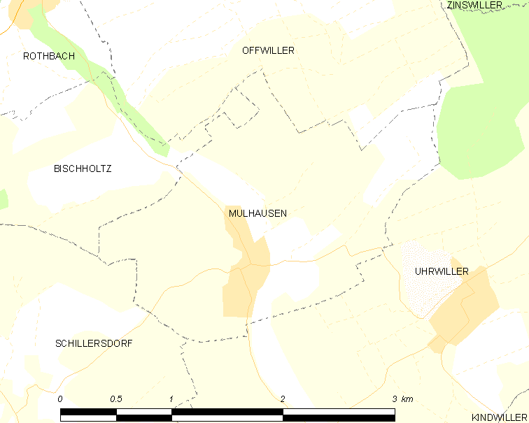 Map of French municipality